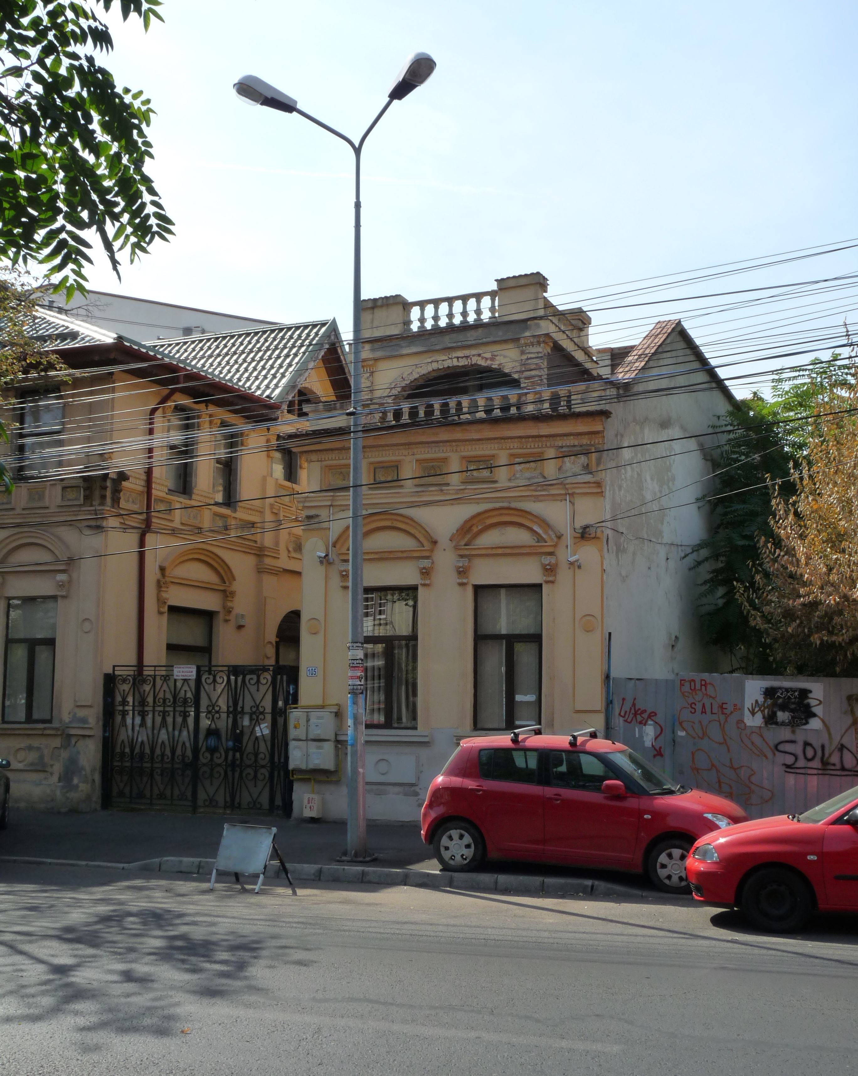 Historical building in Bucharest, Romania, on Polonă street 105